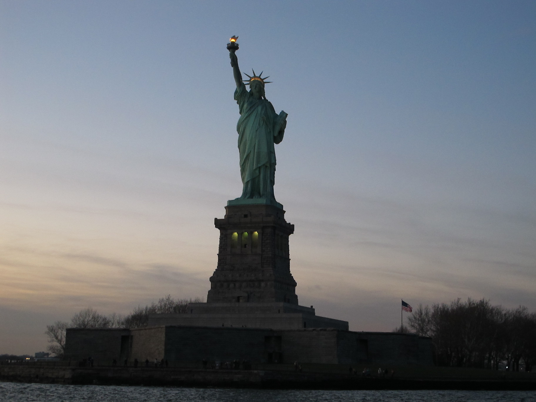 Manhattan, New York City